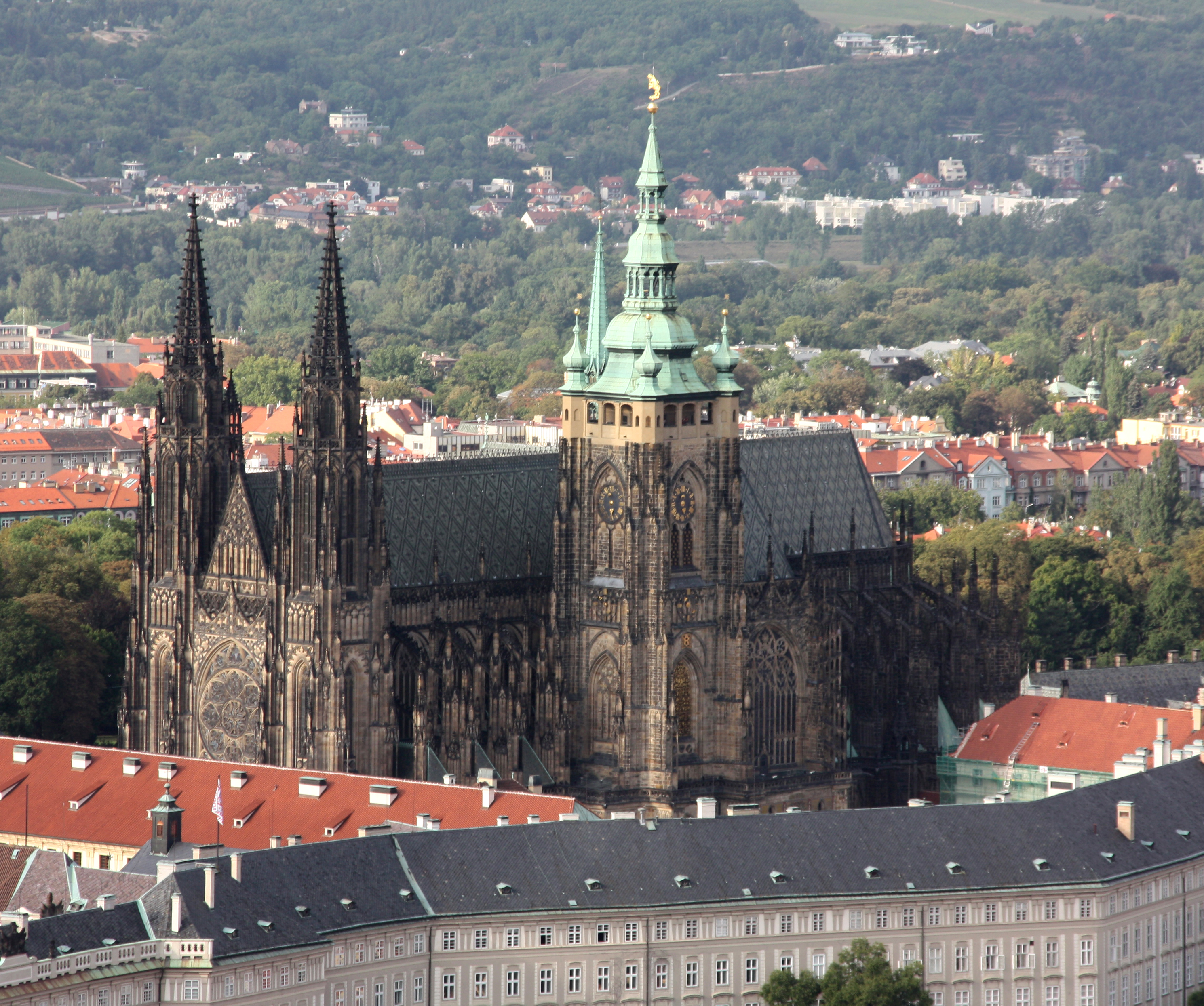 Saint Vitus Cathedral in Prague, view from the Petřín Tower